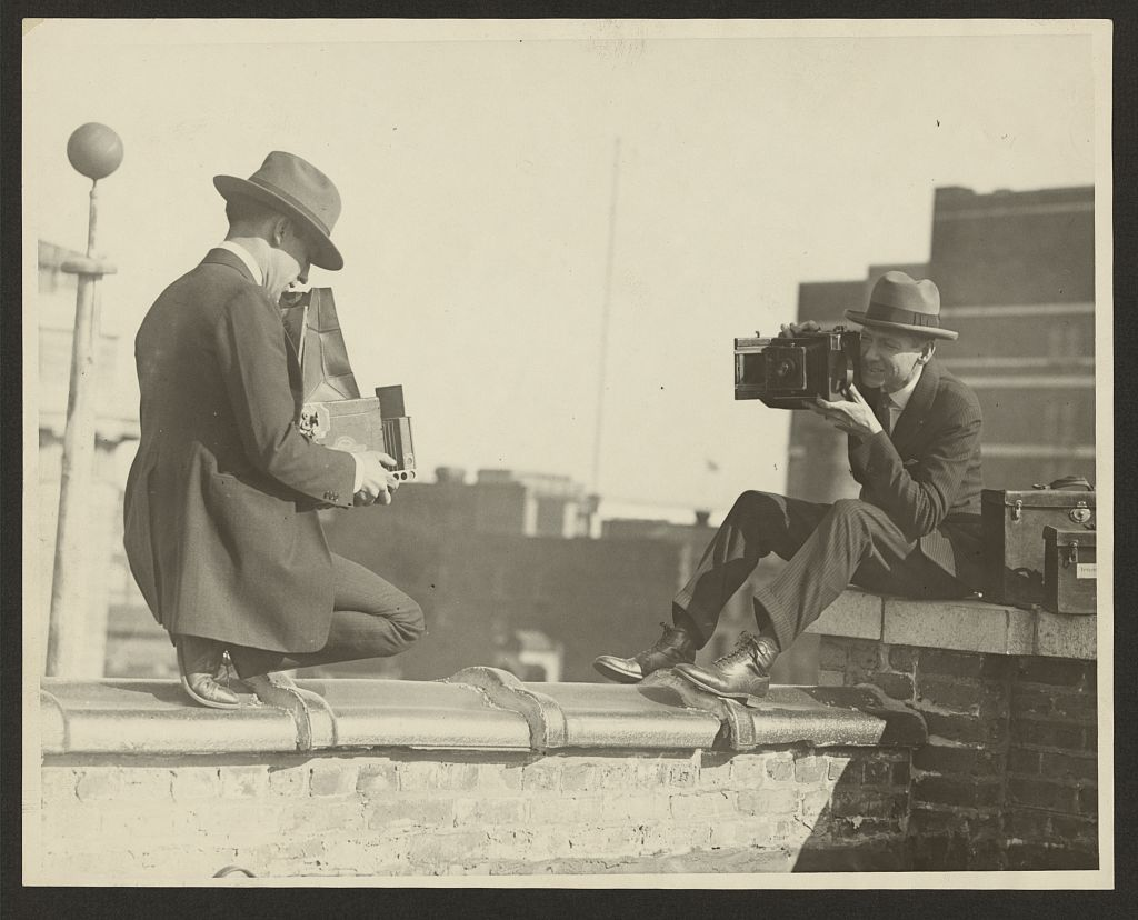 [Two photographers taking each others' picture with hand-held cameras while perched on a roof] [between 1909 and 1932] 1 photographic print. Notes: Title devised by Library staff. National Photo Company Collection. Subjects: Photography--1900-1940. Photographers--1900-1940. Cameras--1900-1940. Format: Photographic prints--1900-1940. Repository: Library of Congress, Prints and Photographs Division, Washington, D.C. 20540 USA Persistent URL: Call Number: LOT 12355-5